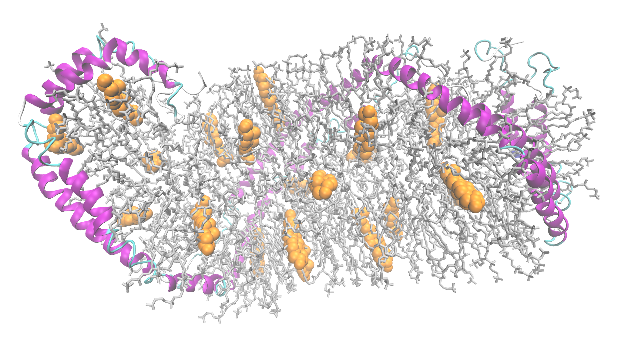 Two apolipoprotein A1 chains (magenta ribbons) complexed with cholesterol (orange balls) and phospholipids, after PDB 3K2S. Ref.: Wu Z, Gogonea V, Lee X, et al. (December 2009). "Double superhelix model of high density lipoprotein". J. Biol. Chem. 284 (52): 36605–19. PMID 19812036.